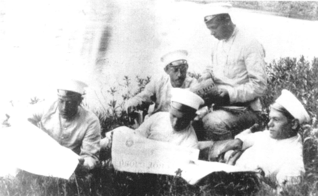 Mennonites at the alternative service in Russian Empire, 1907